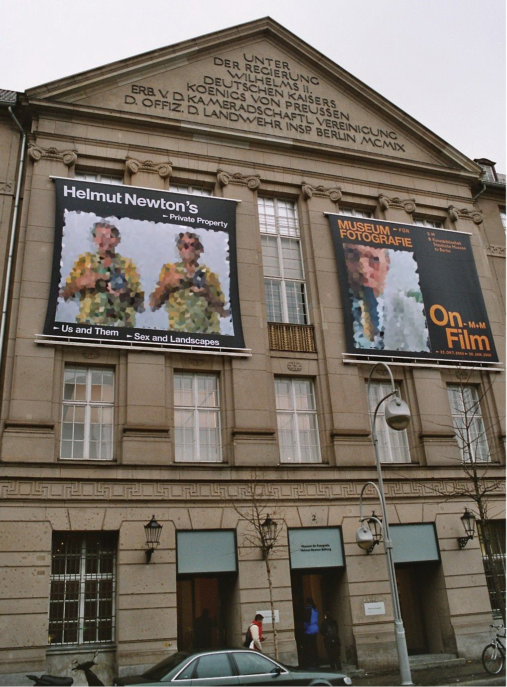 Helmut Newton Stiftung at house of museum for photography, Berlin Jebensstrasse, (former Landwehrkasino) december 2004